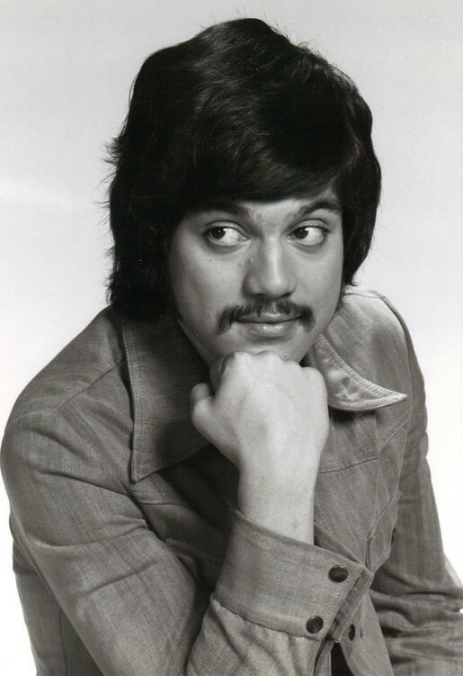 Publicity photo of Freddie Prinze as he guest hosted The Tonight Show.